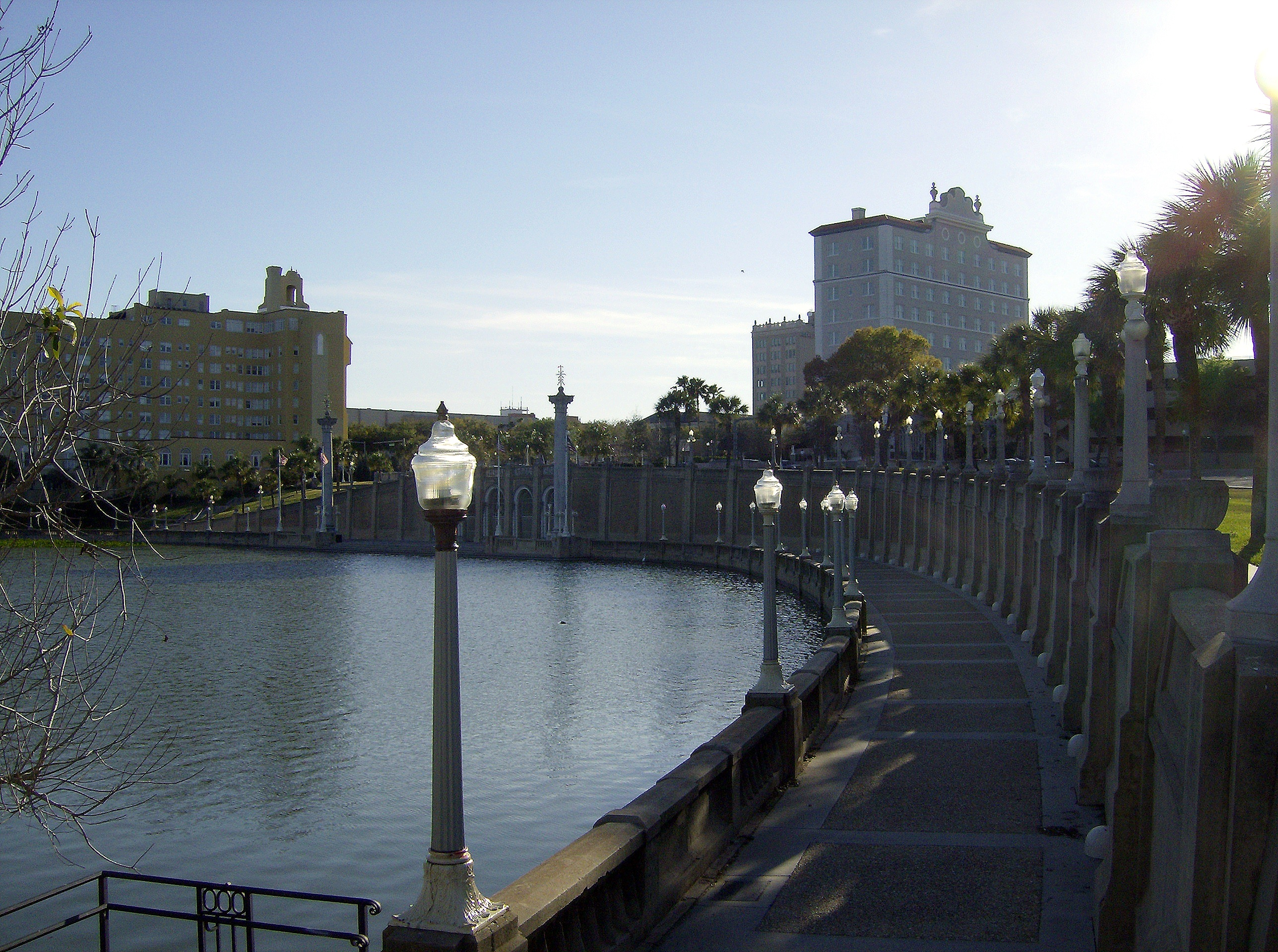 Lake Mirror in downtown Lakeland, Florida. Lakeland Terrace Hotel in background